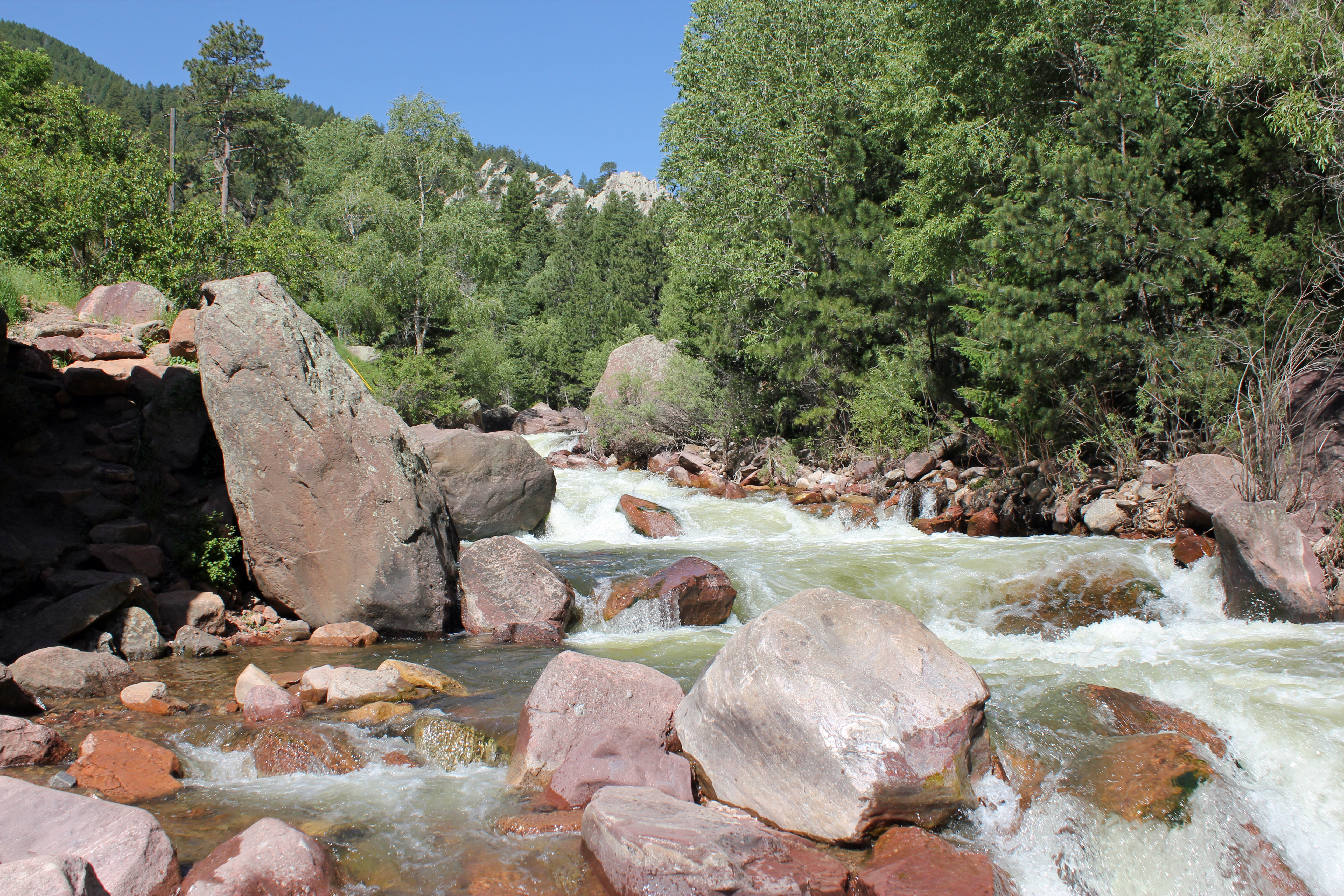 South Boulder Creek in Boulder County, Colorado. The picture is taken in Eldorado Canyon State Park.